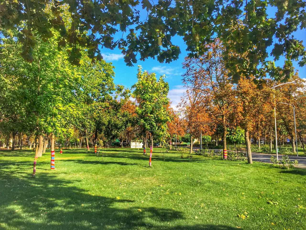 Park, Novomirgorod